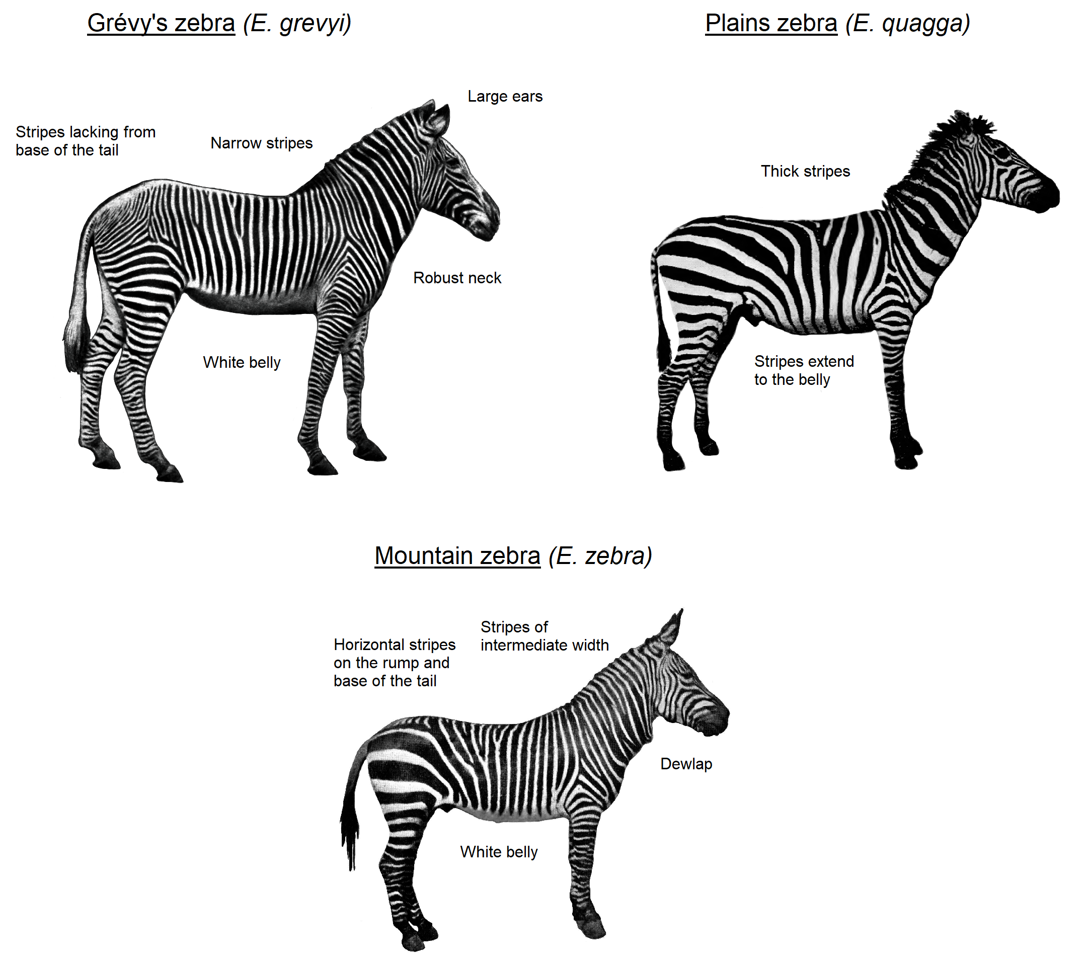 Comparative illustration of extant zebra species in English.